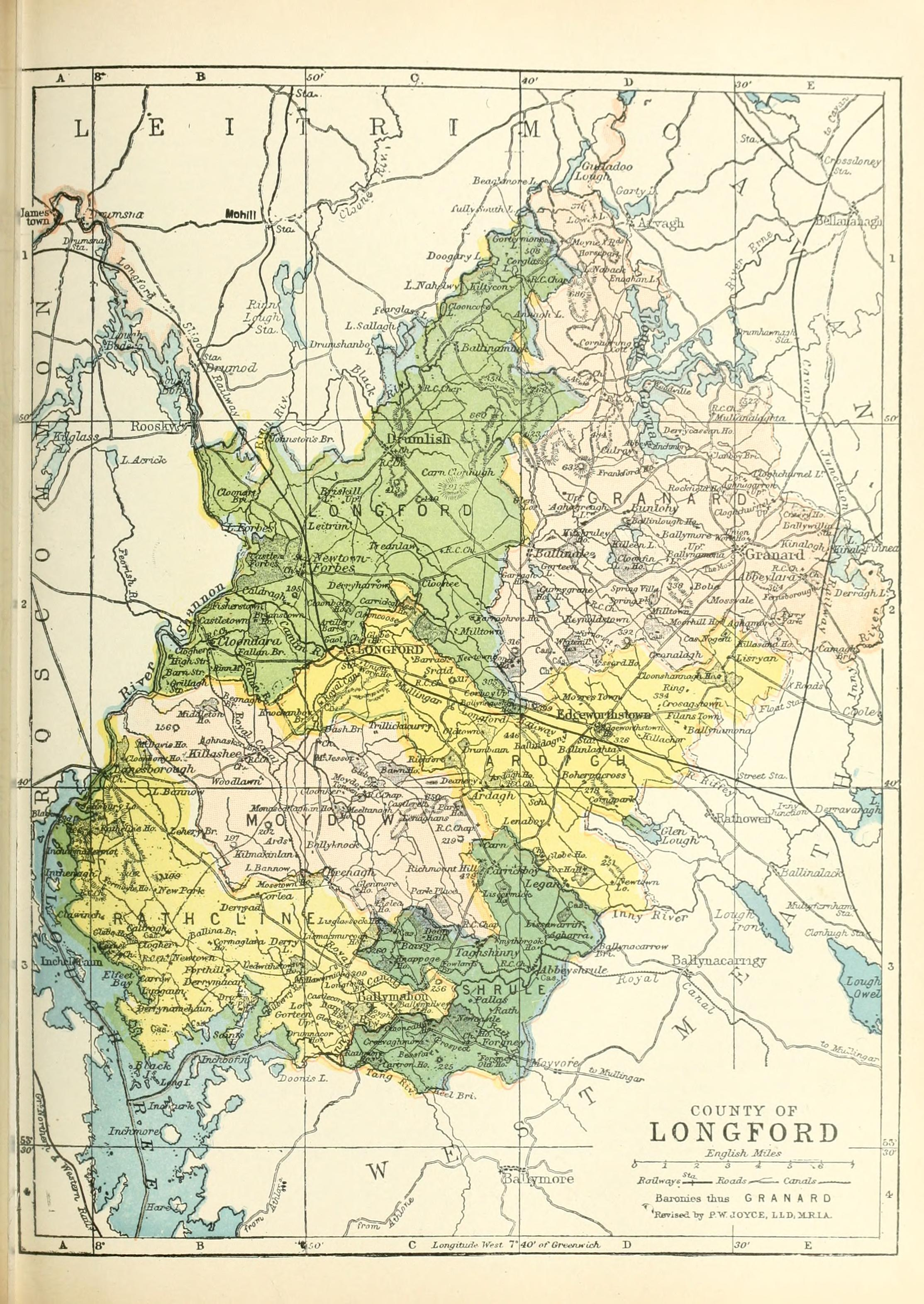 Map of the baronies of County Longford in Ireland; taken from Atlas and cyclopedia of Ireland, p.214